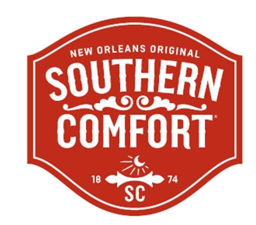 Red Southern Comfort logo